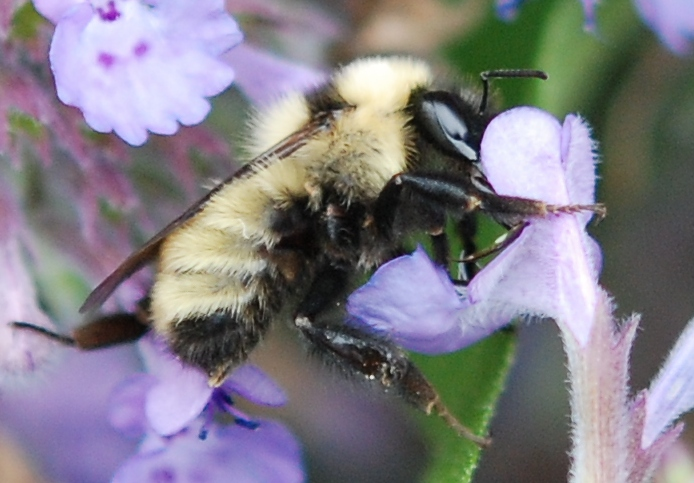 Bombus fervidus (Golden Northern Bumble Bee) feeding on thyme at the Penn State Lebanon County Extension office. The Pennsylvania Department of Agriculture along with the Penn State Master Gardeners are conducting a citizen–scientist project. This project has the master gardeners and their volunteers observing 8 flowers for 10 minutes each and recording the number and type of bees visiting each plant. This data will be used to by the Pennsylvania Department of Agriculture to make recommendations to gardeners as how which plants they can plant to make their garden pollinator friendly. The project is in part funded by Haagen–Dazs. For more information please visit: For information on the Penn State Master Gardeners, please visit